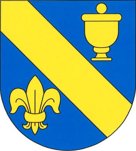 znak obce Rohozec